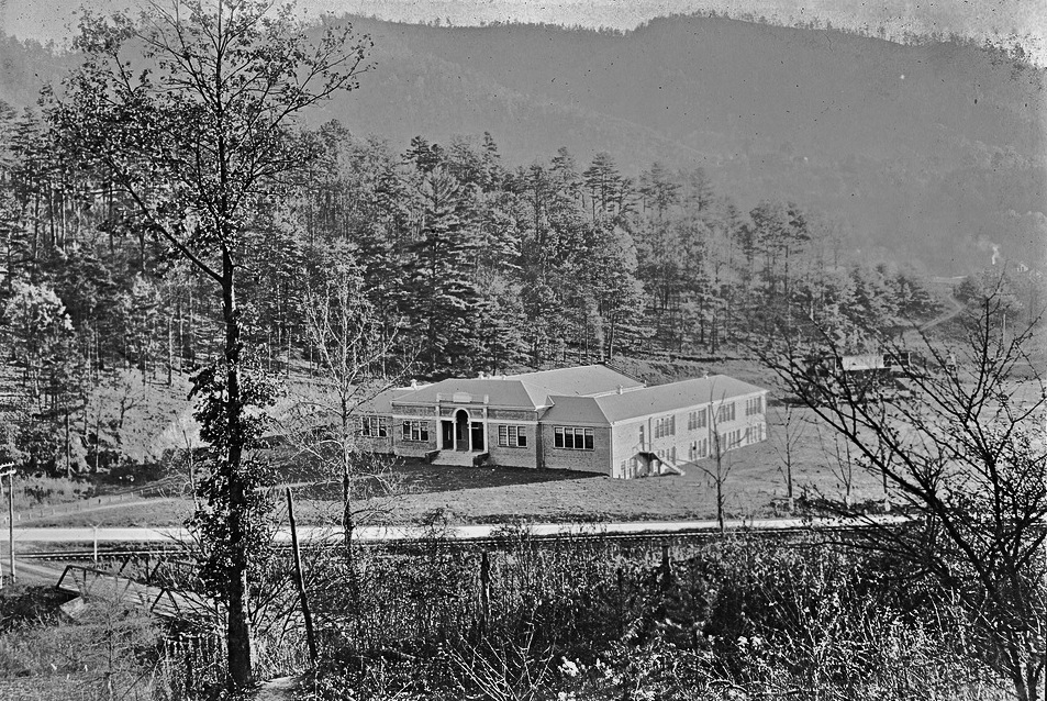 Sylva Central Township High School in 1924, shortly after being completed at a cost of $65,000, the two story building had a U-shaped classroom wing surrounding a central auditorium.